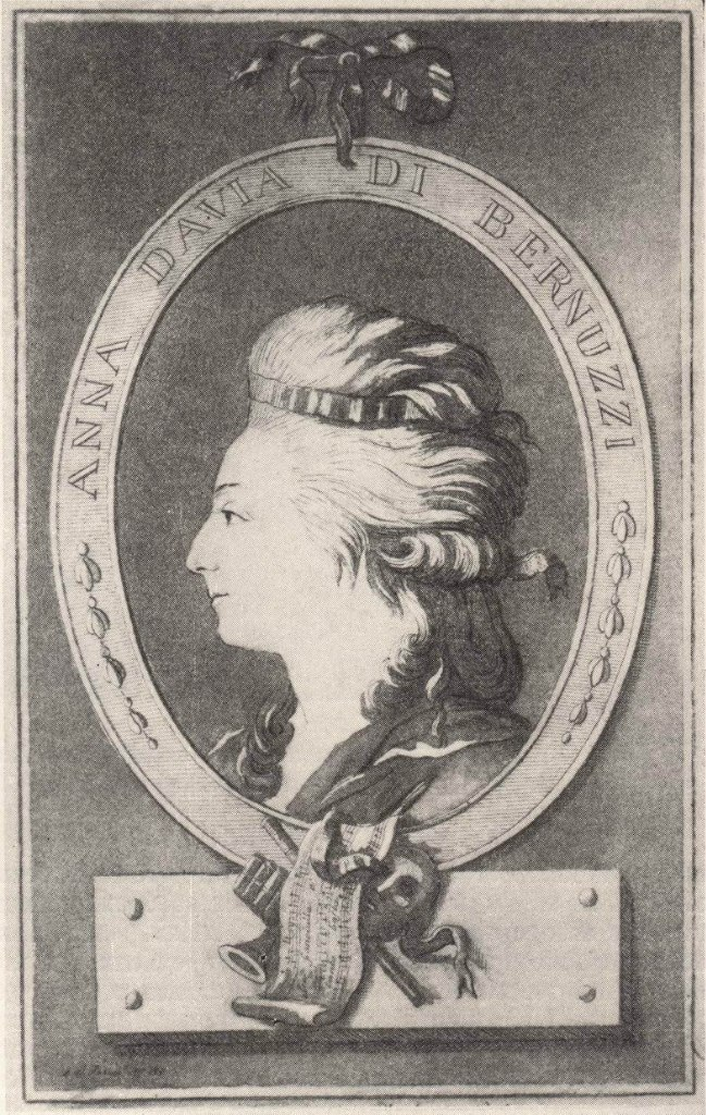 Portrait of Anna Davia (1743-1810)